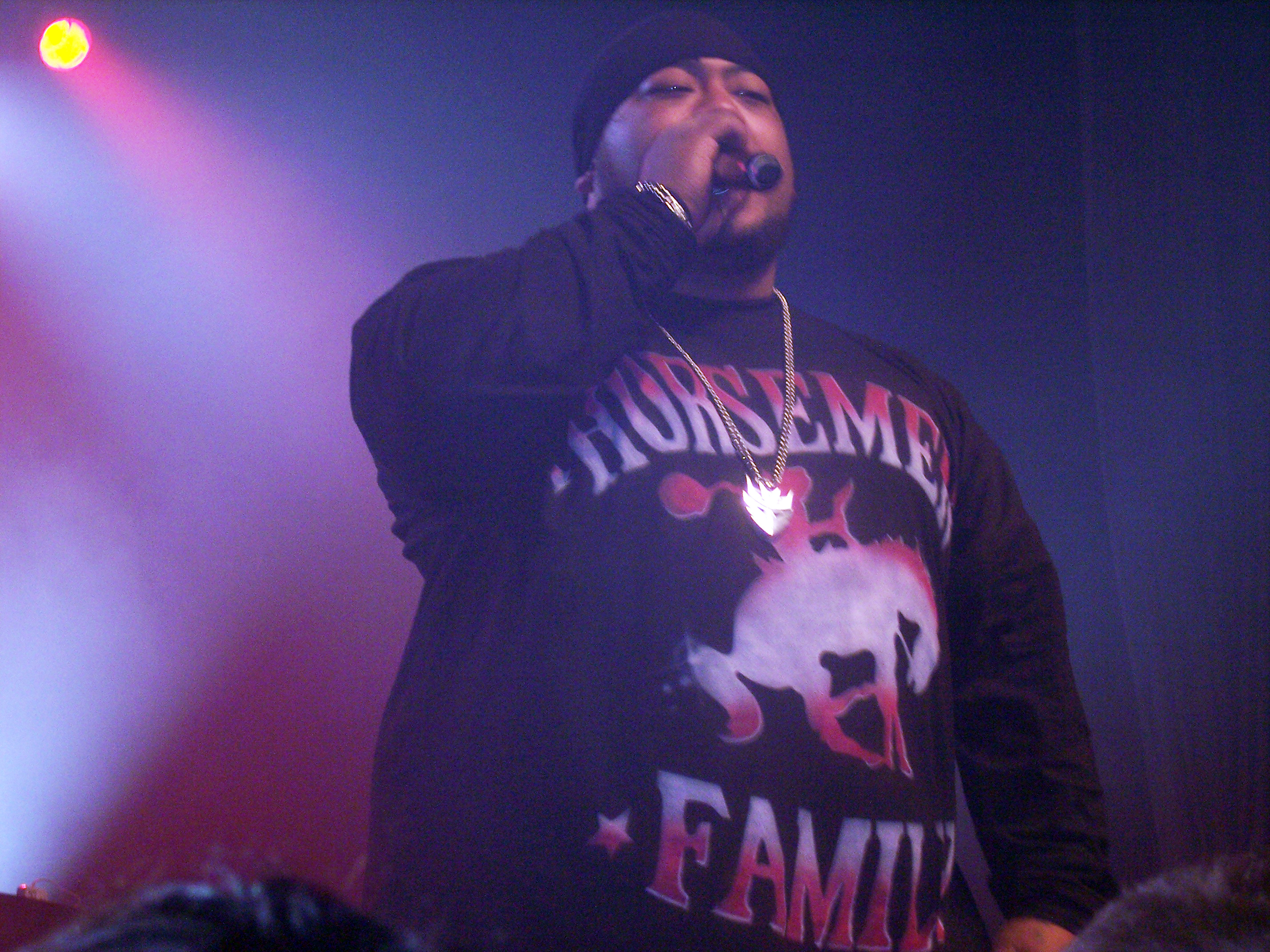 Savage, a member of the New Zealand hip-hop group Deceptikonz; performing in Adelaide, Australia in June 2007